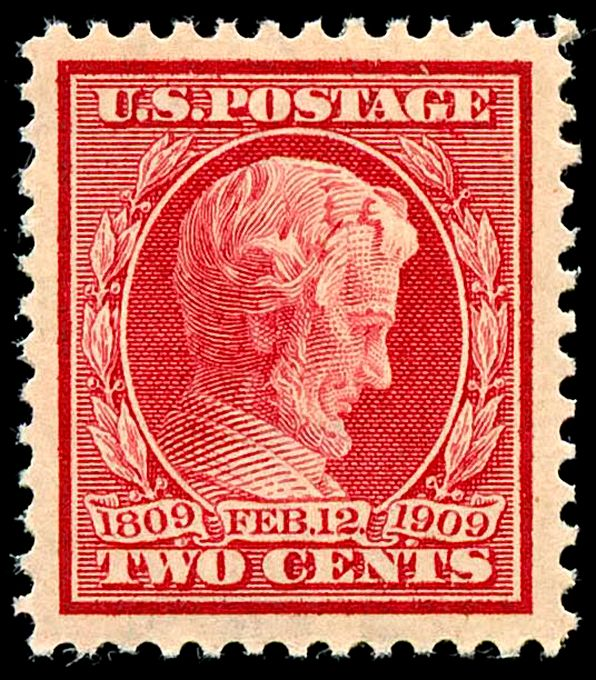 US Postage stamp: Abraham Lincoln, Issue of 1909